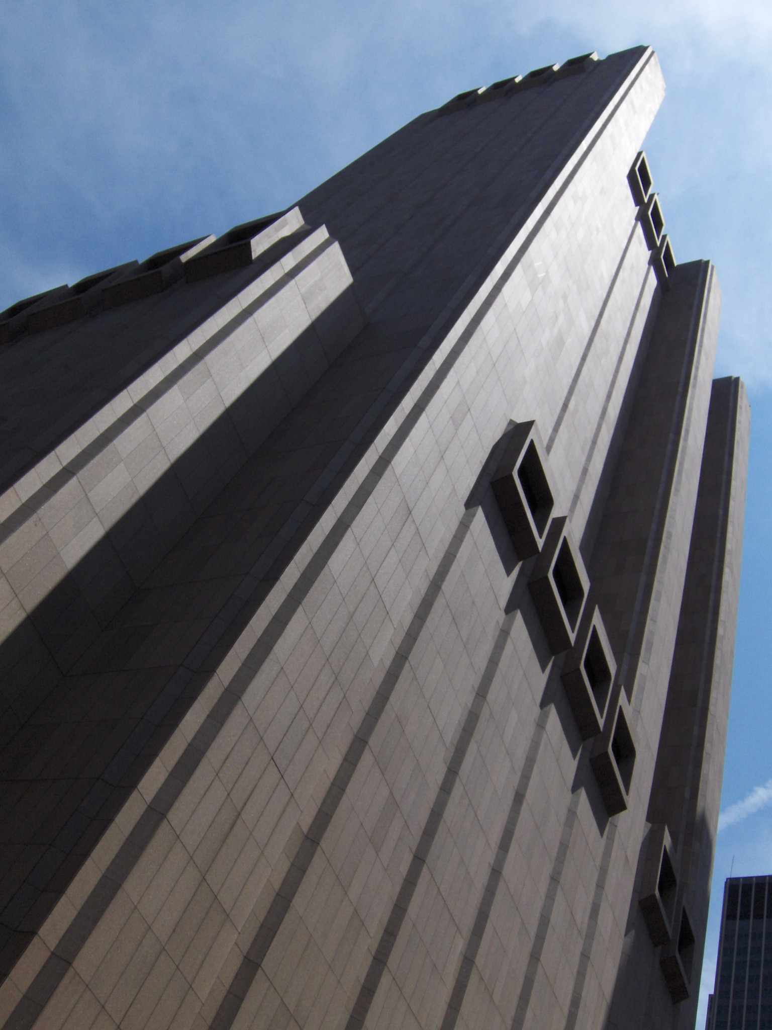 View of 33 Thomas Street from the adjacent streets at the intersection of Church & Worth. I took this photo on July 25, 2007